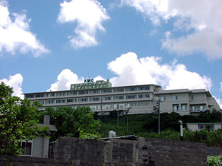 Adventist Medical Center